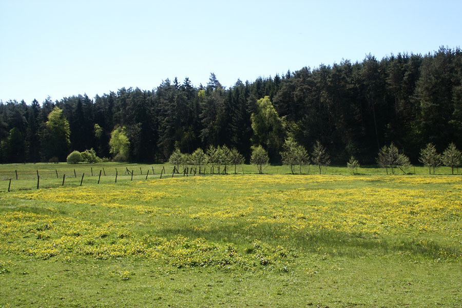 Wet Meadow with Caltha palustris in the Valley of the Wetschaft near Ernsthausen, Germany